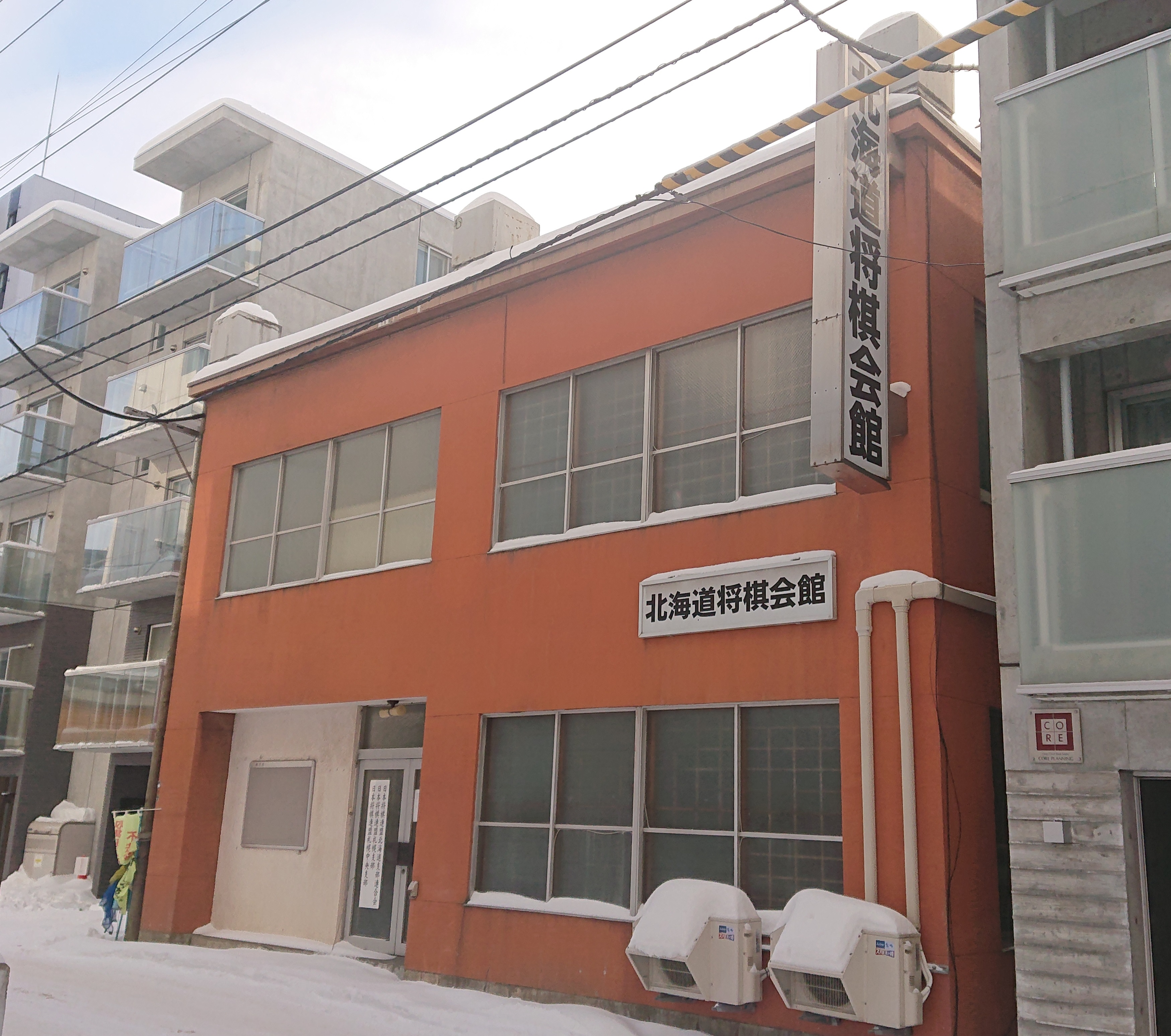 Hokkaido Shogi Kaikan